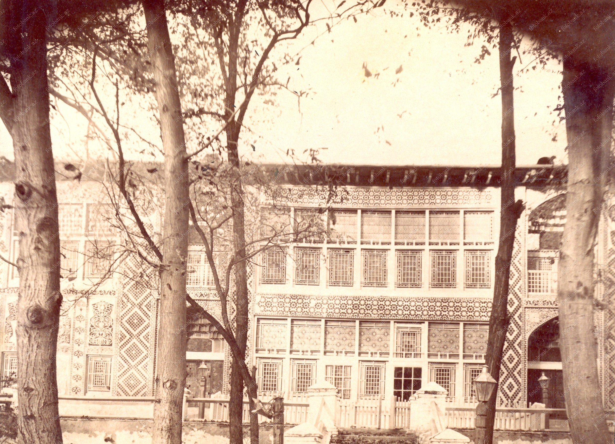 Khan's Palace of Shaki in 1920s